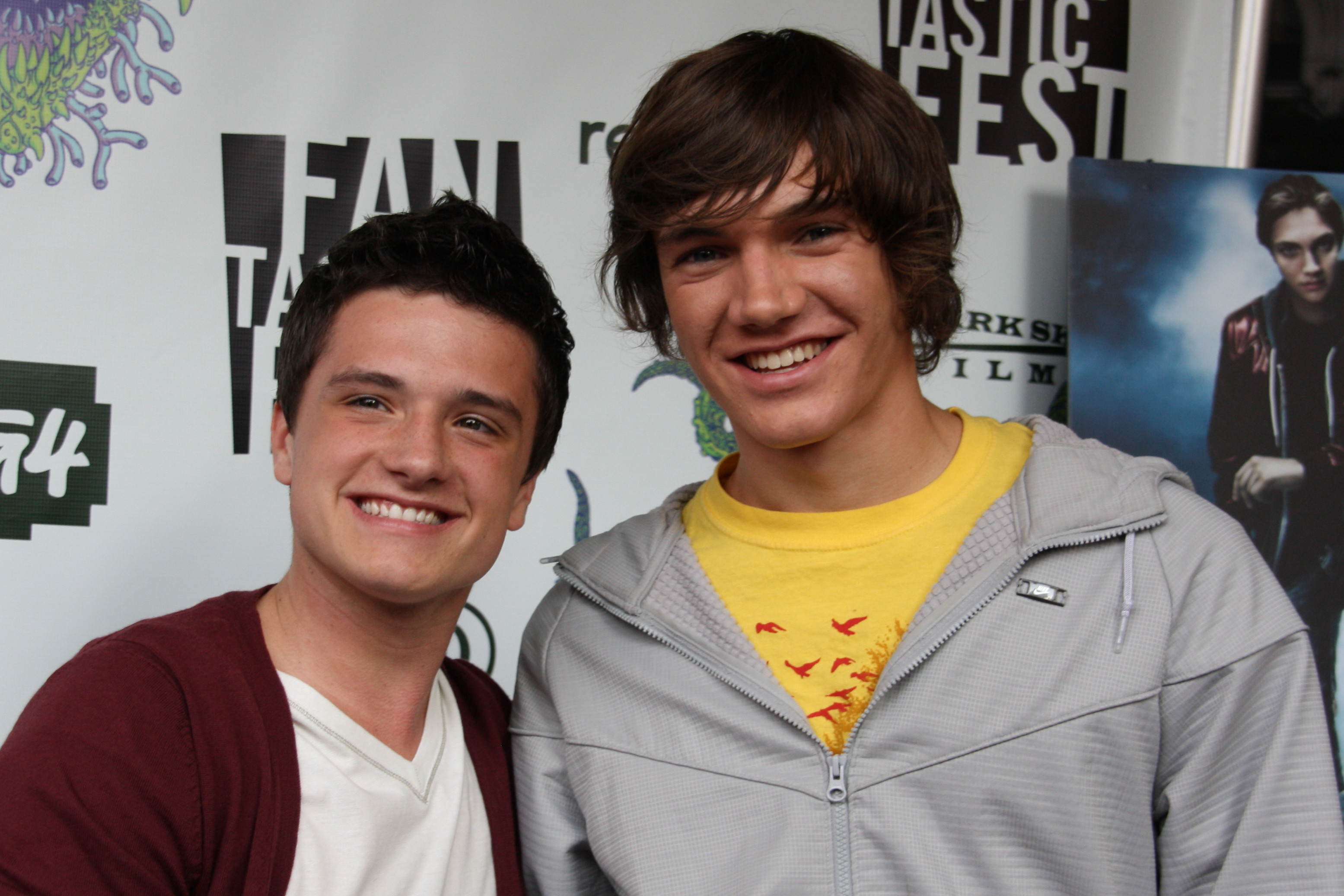 Josh Hutcherson and Chris Massoglia